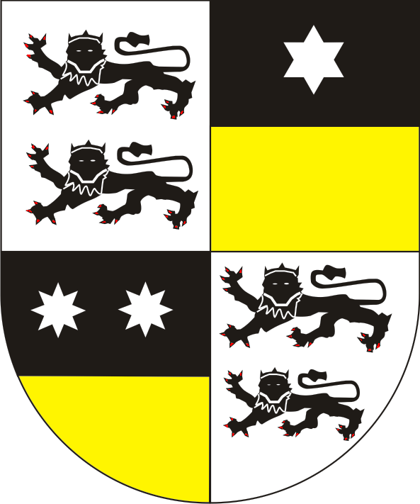 Coats of arms of the county of Hohenlohe (15th century); 1,4; county of Hohenlohe; 2: county of Ziegenhain; 3: county of Nidda